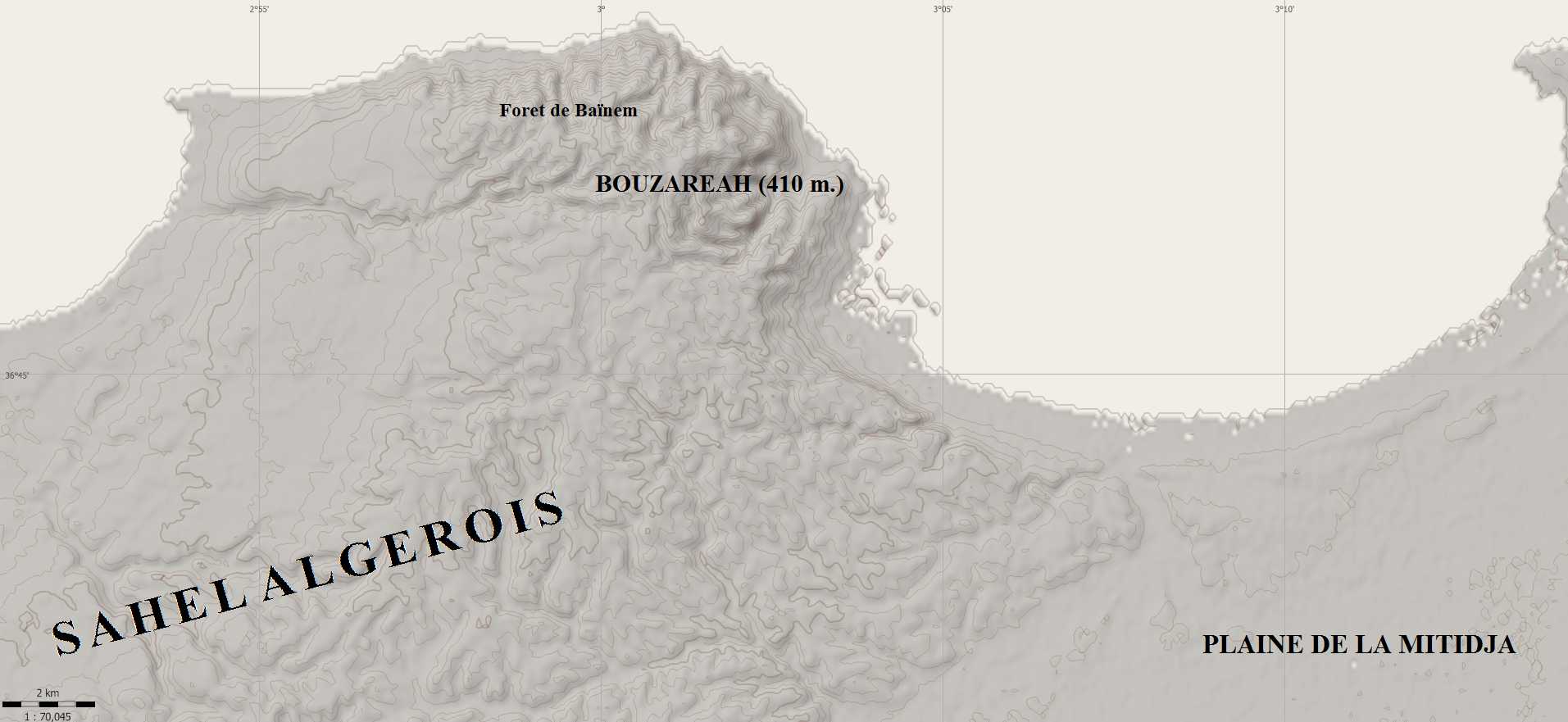 Relief of Algiers area